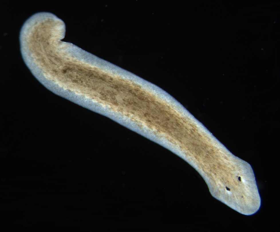 Dugesia subtentaculata. Asexual specimen from Santa Fe, Montseny, Catalonia.